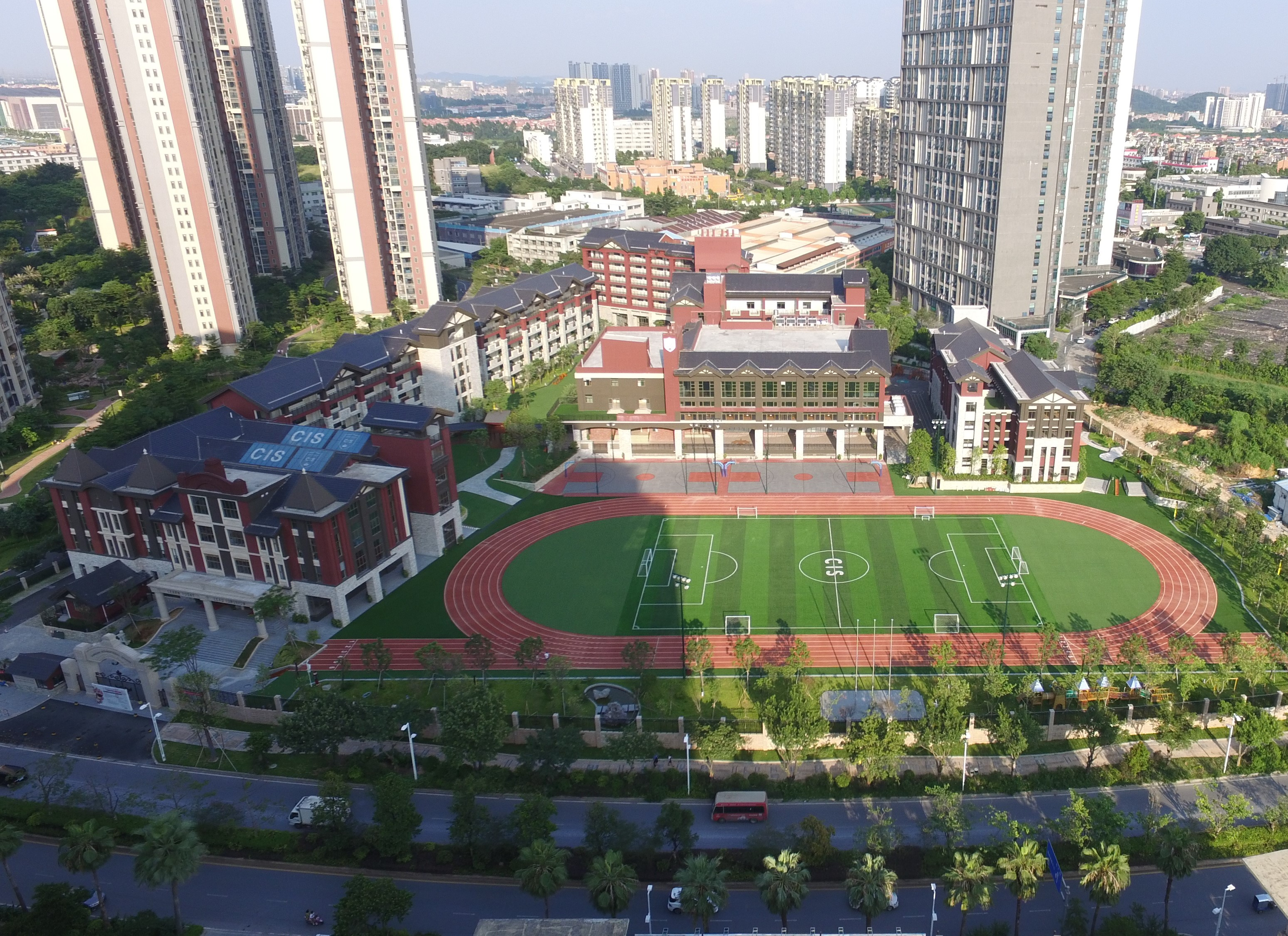 CIS overview from sky